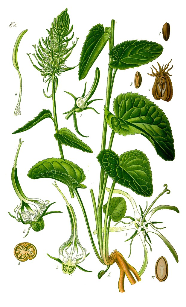 Phyteuma spicatum (cleared)